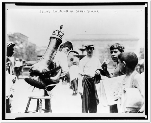 A Syrian man selling cold drinks in the Syrian quarter